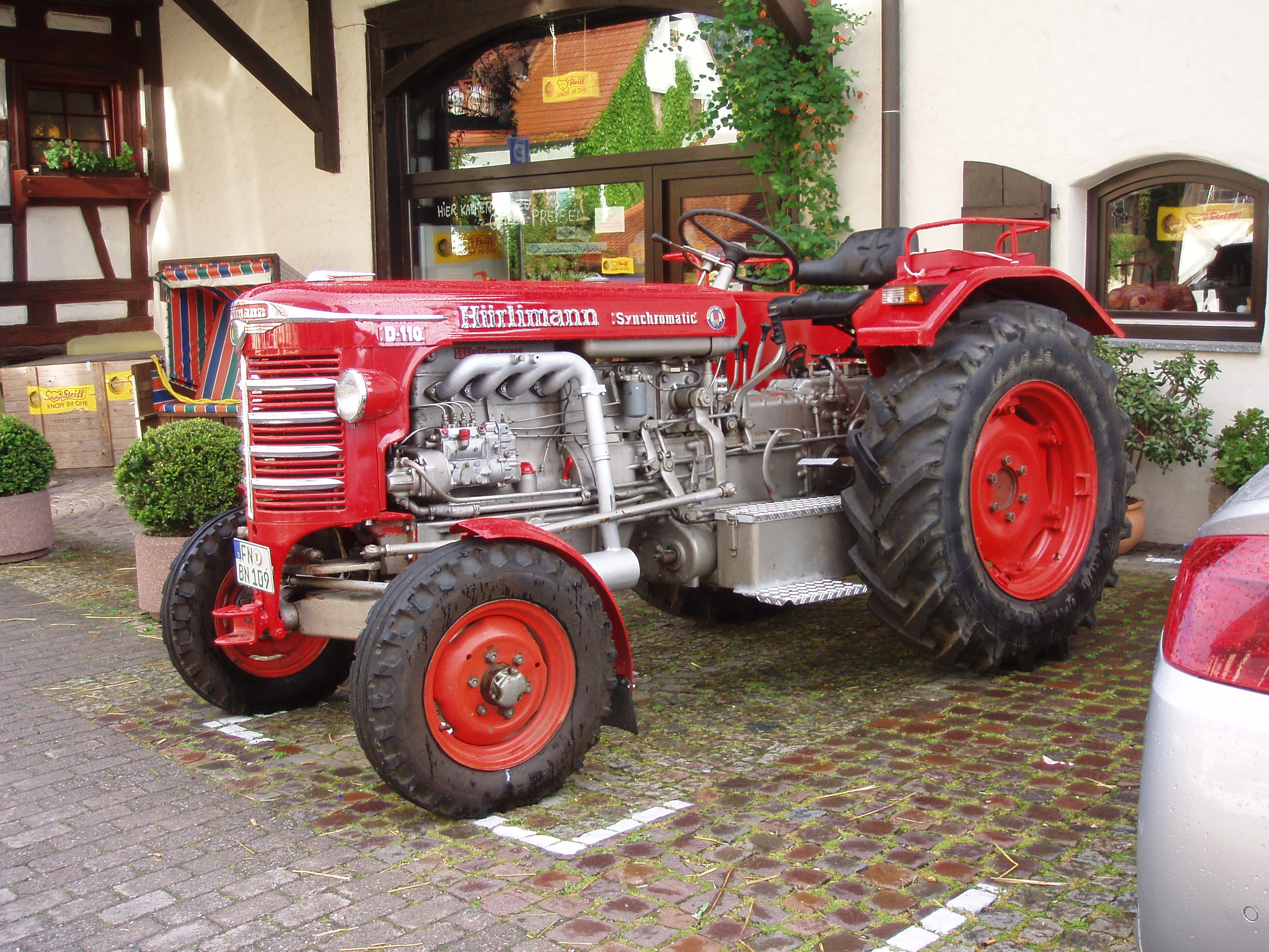 Hürlimann D 110